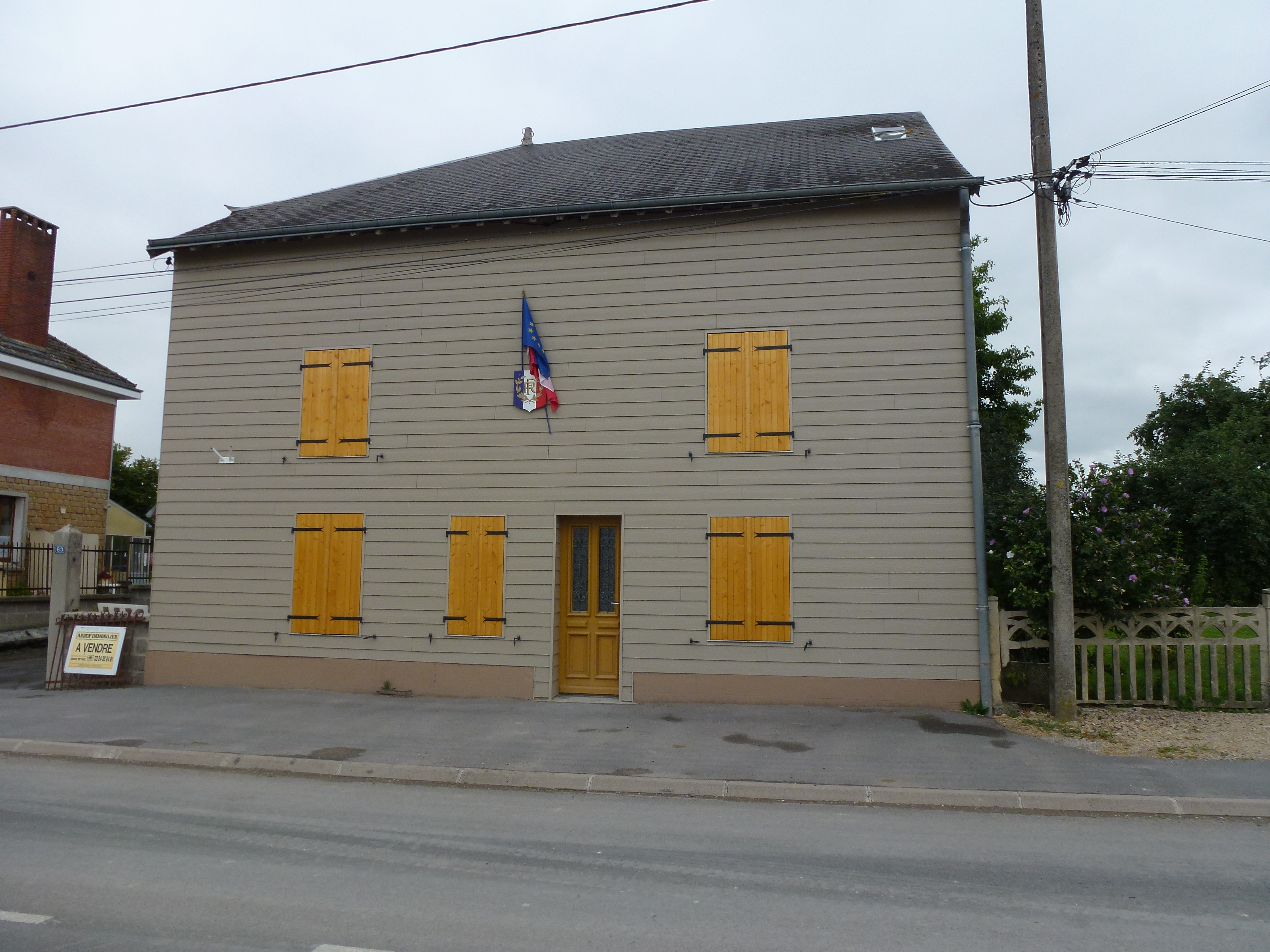 Doux (Ardennes) mairie